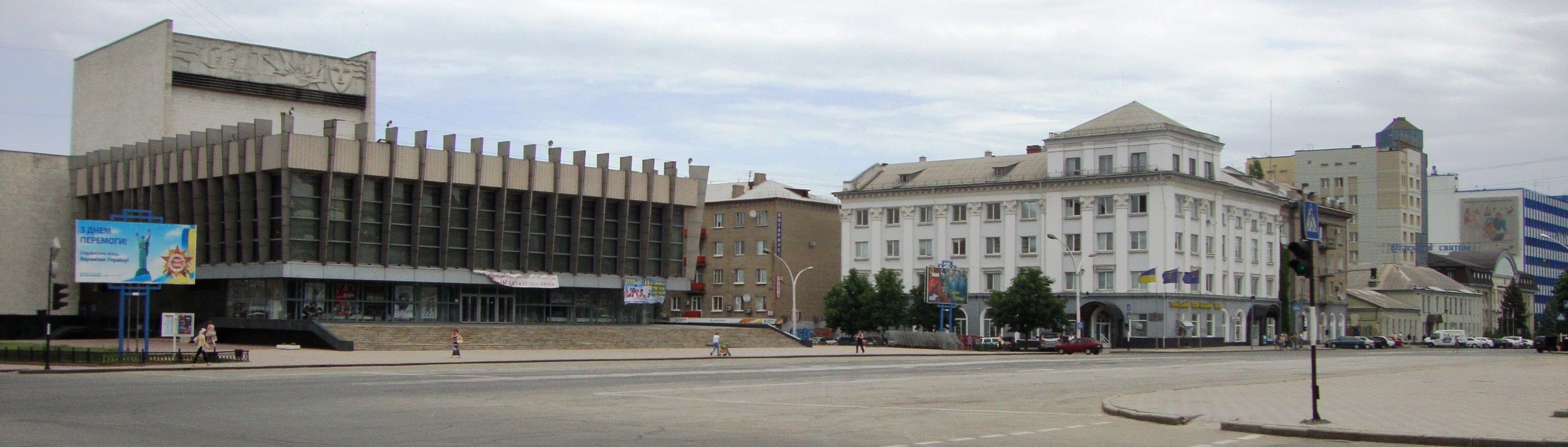 Russian theatre on Theatral square in Luhansk, Ukraine